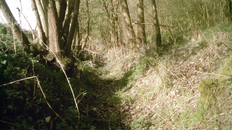 Hammer Bach Creek (dryed out), in Bockerter Heide natural reserve, Viersen, Germany.